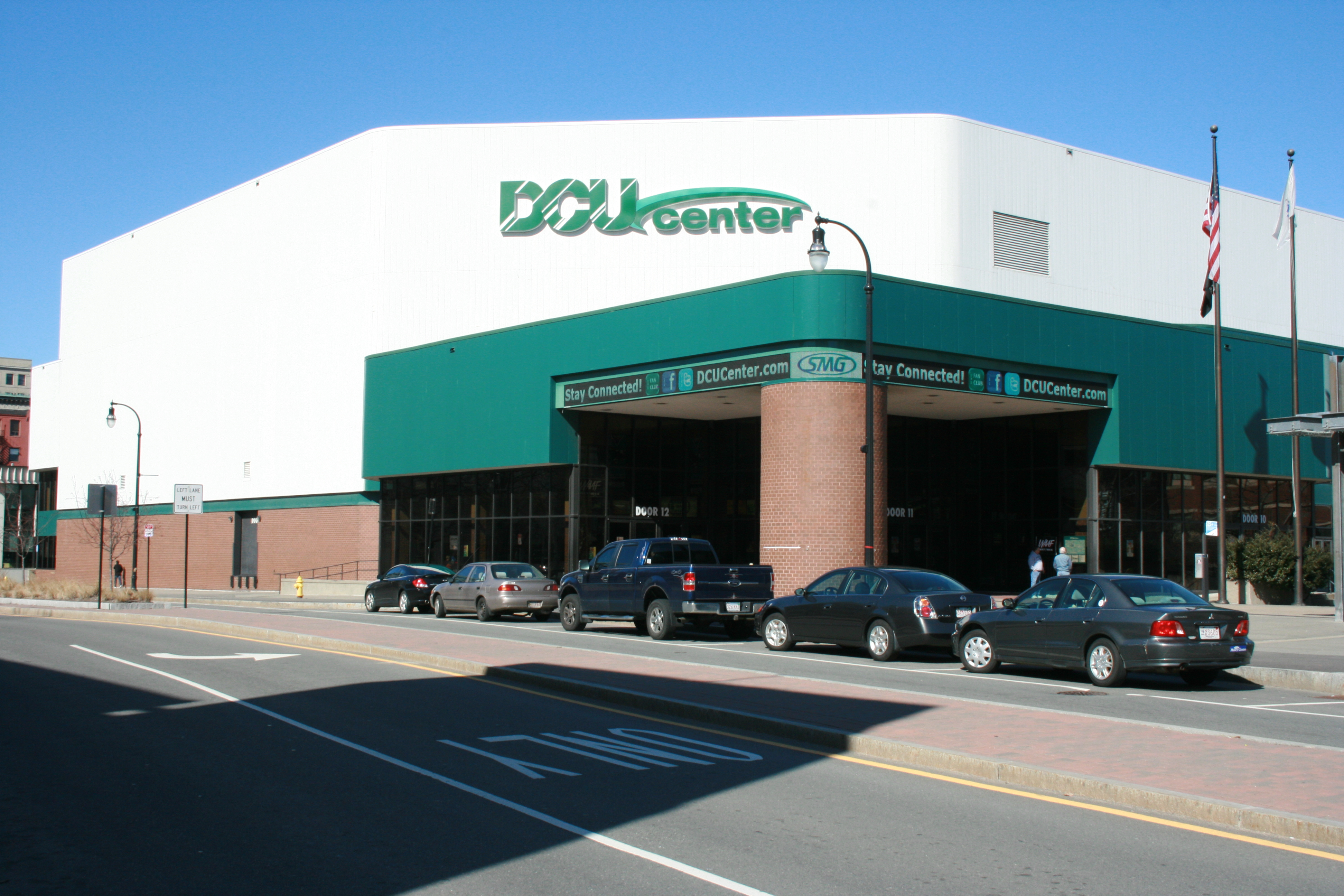 DCU Center from Foster St